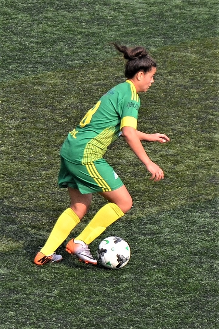 Gül Eroğlu playing for Kireçburnu Spor in the 2015-16 Turkish Women's First League.